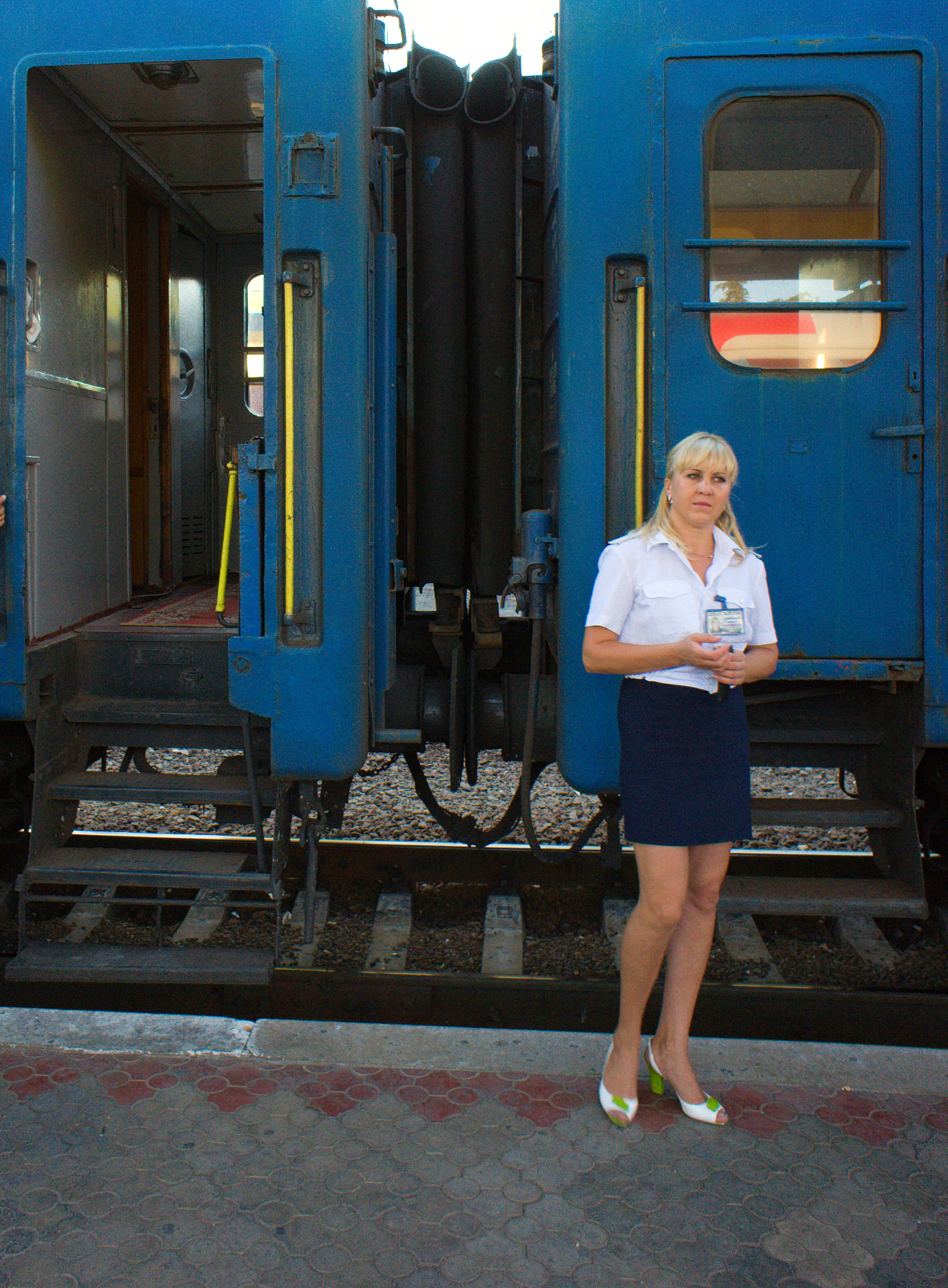 Provodnitsa - a conductor like staff, which is taking care for passangers in each wagon.